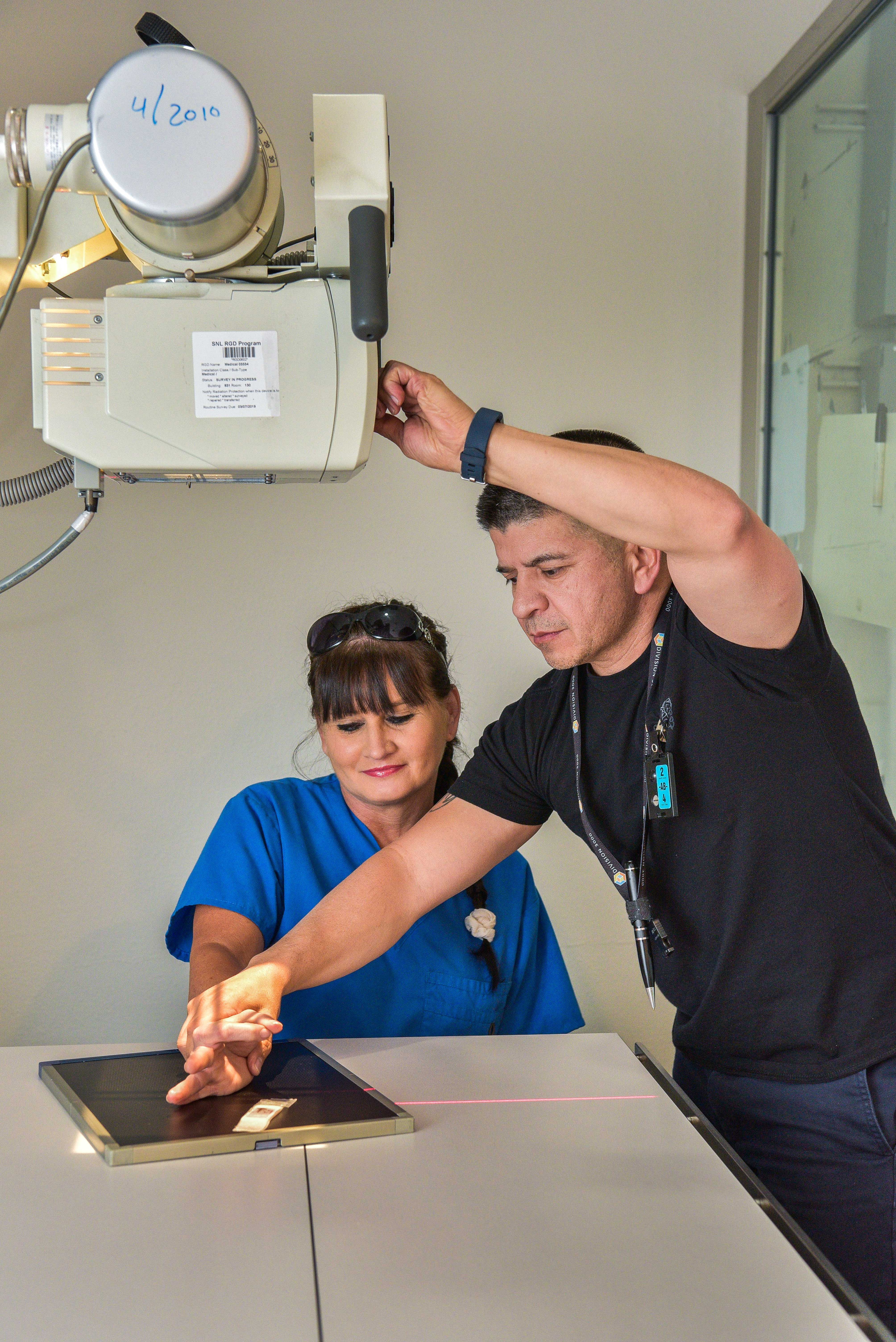 X-ray camera is aimed on hand at Sandia’s onsite medical facility. For more information or additional images, please contact 202-586-5251. (PHOTO CREDIT: DOE PHOTOGRAPHER, DONICA PAYNE)